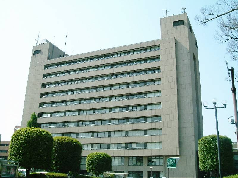 Saitama City Hall, and Urawa ward office